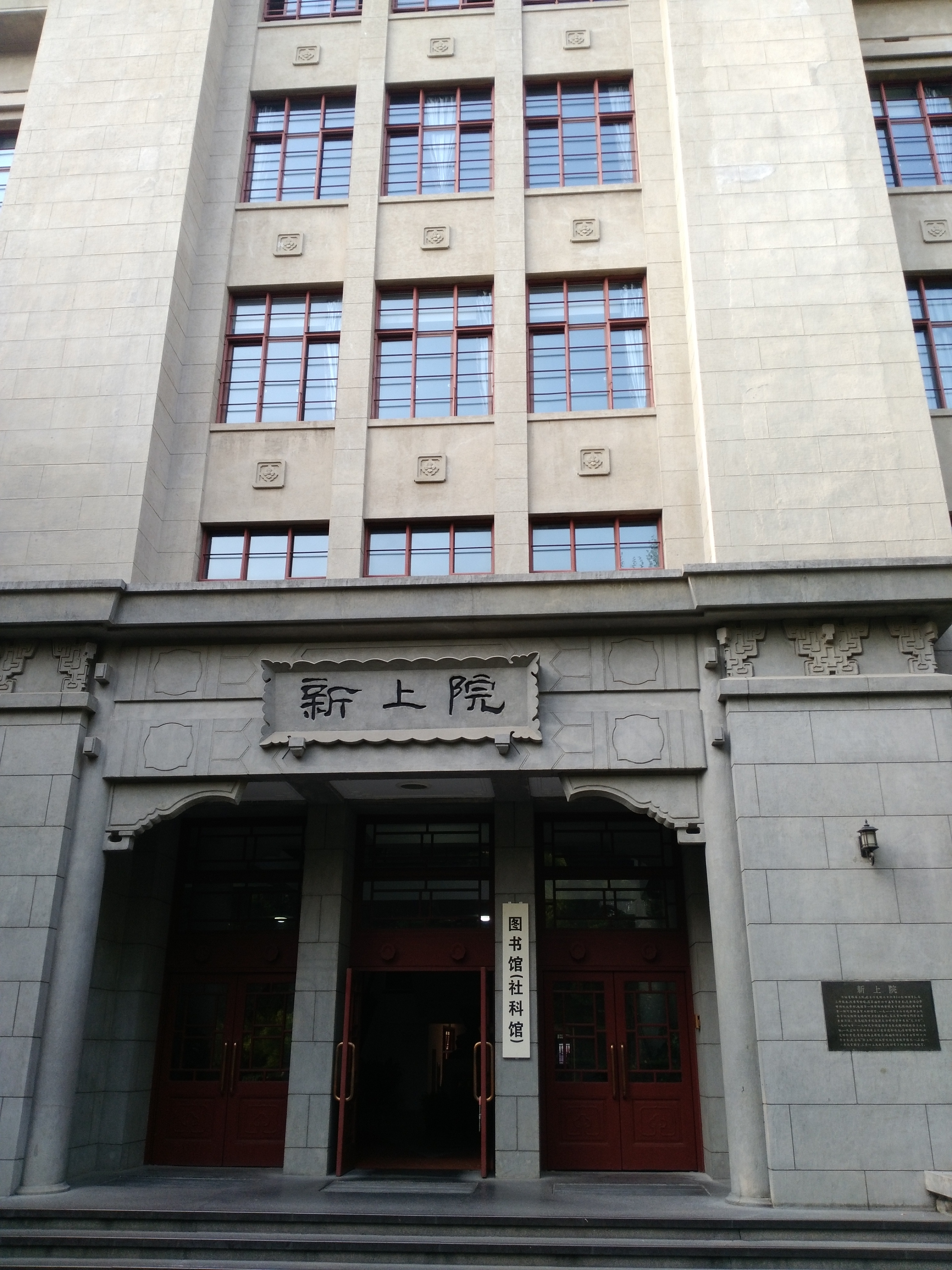 Library on Xuhui campus